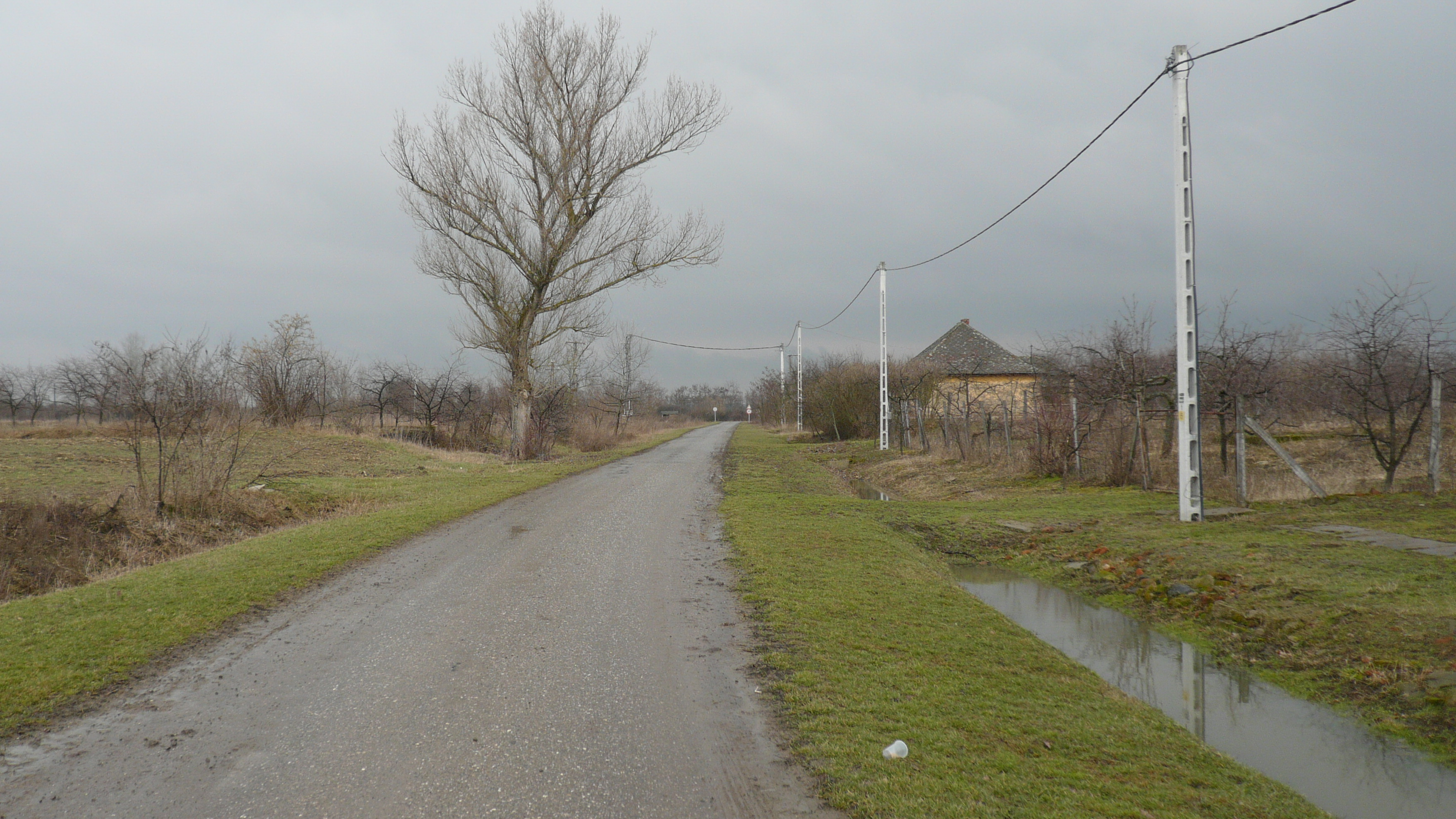 Main street of Nagygéc, abandoned settlement in Hungary, 40 years after the great floodings of the Szamos river.